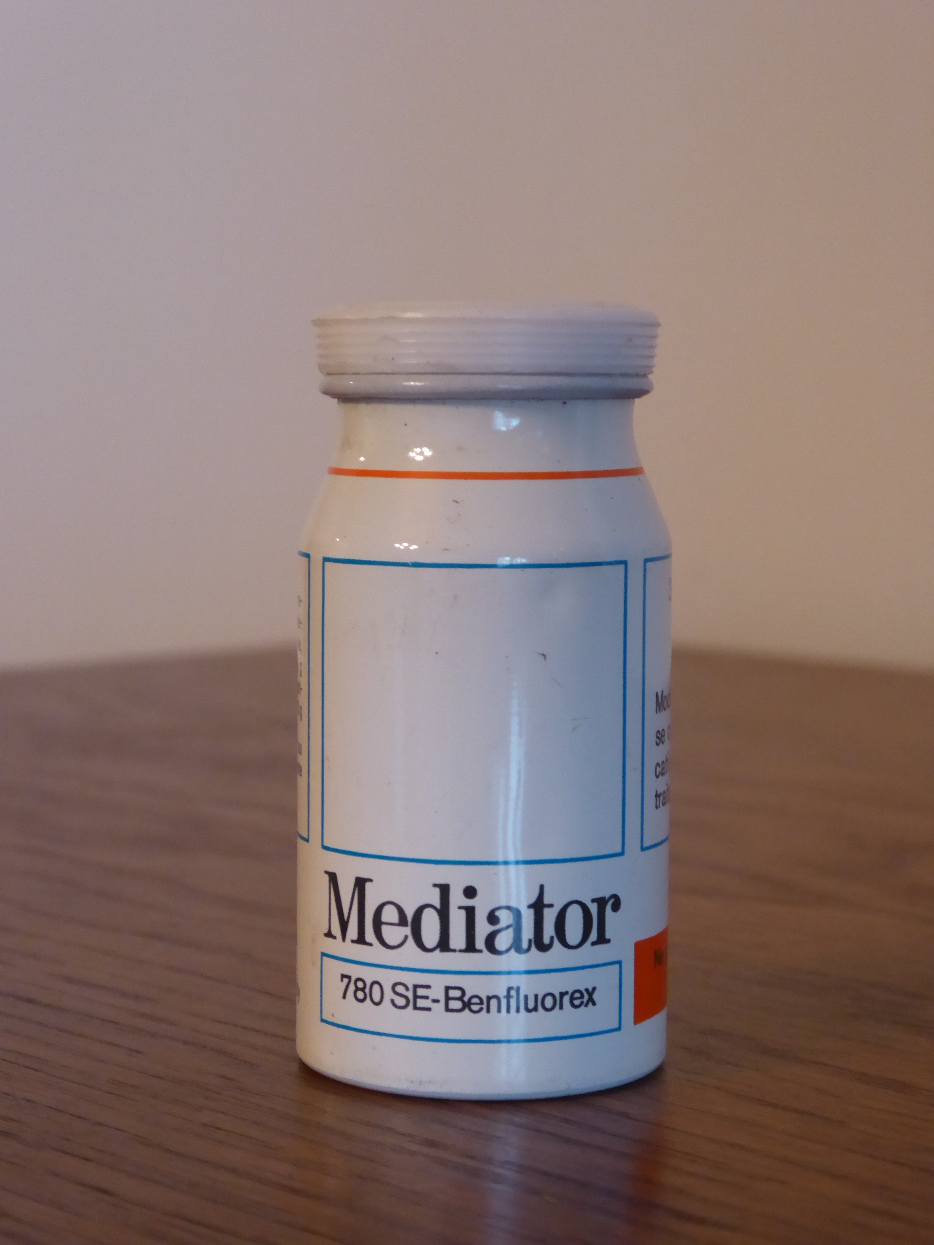 Bottle of 30 tablets of Benfluorex - 1981